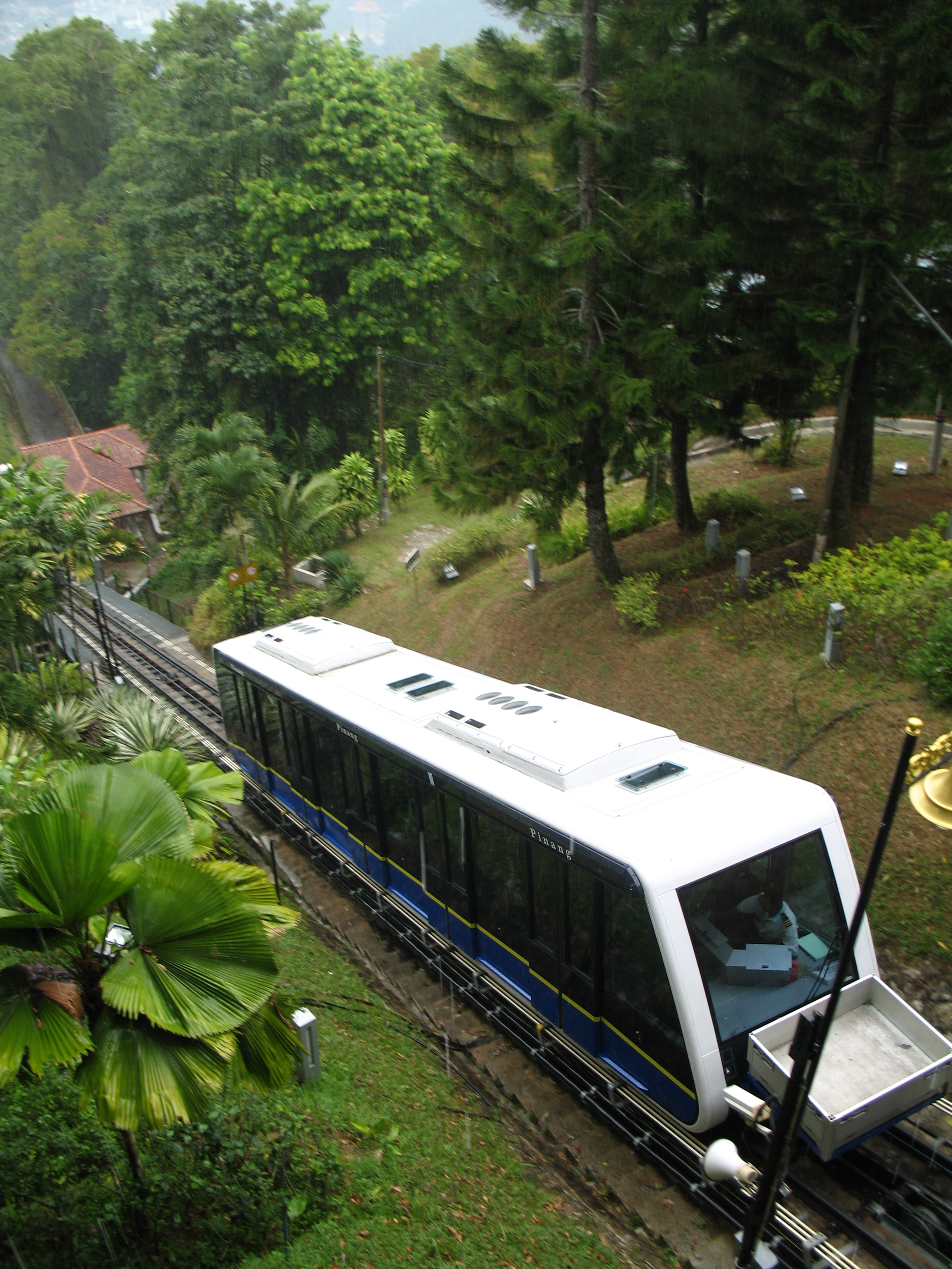 A funicular approaching the top of Penang Hill